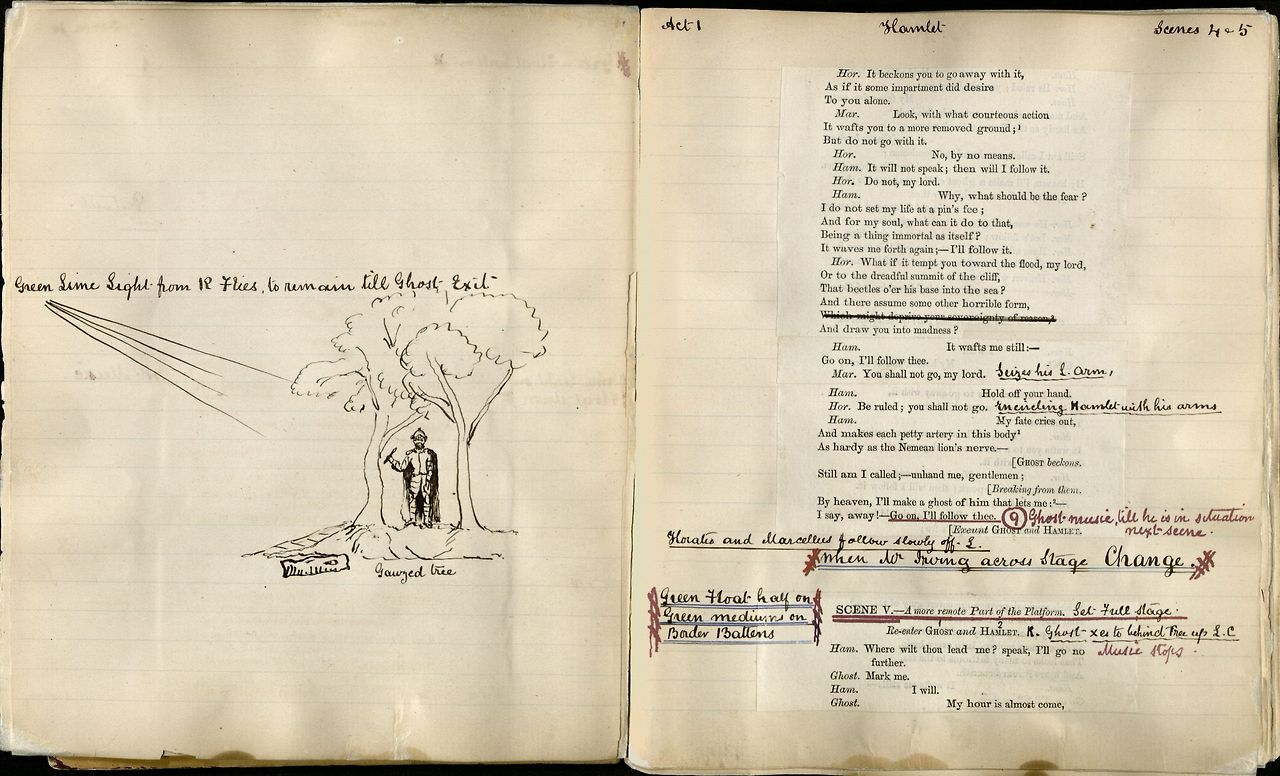 This is the prompt book from and 1874 staging of Hamlet by English actor and manager Henry Irving (1838-1905), in which he experimented with using limelight (burning calcium oxide) to represent the ghost of Hamlet’s father. TS Promptbooks Sh 154.75, Harvard Theatre Collection, Houghton Library, Harvard University